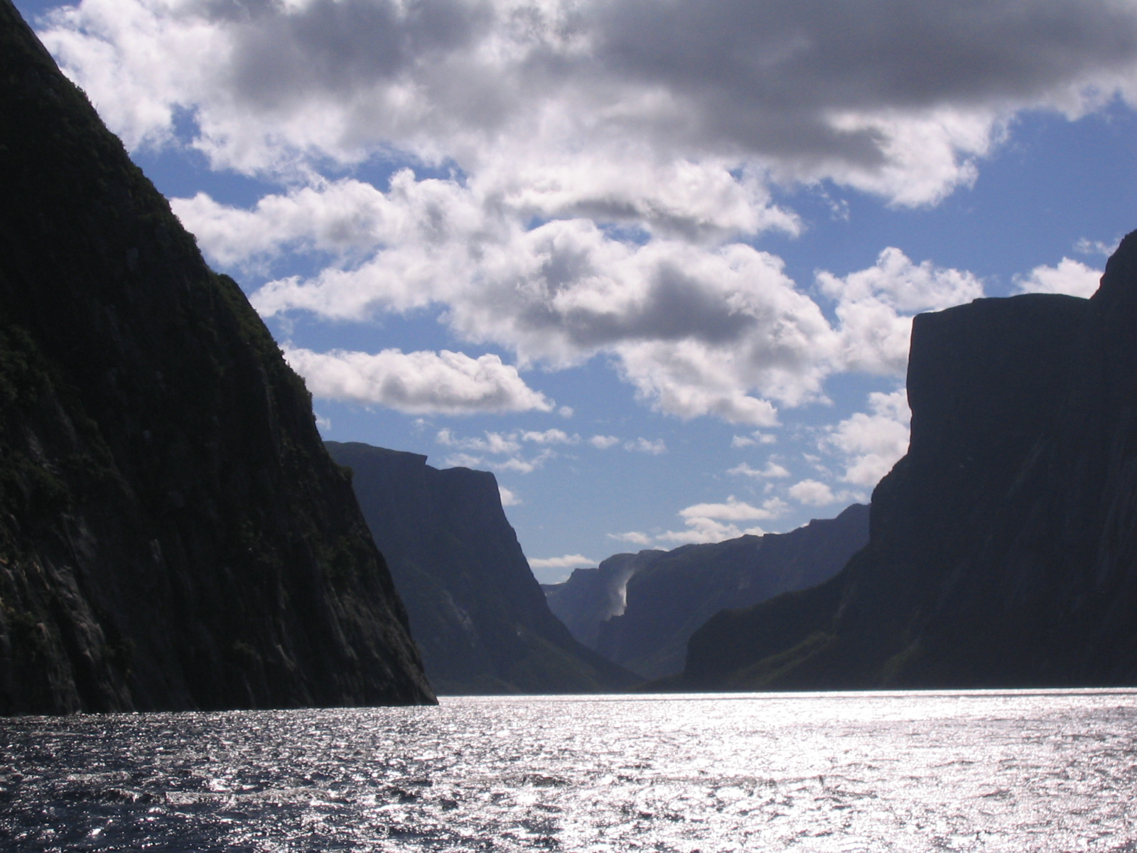 Gros Morne National Park, Western Brook Pond